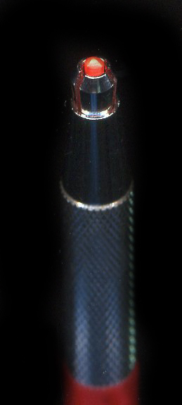 Leadholder(stationery)